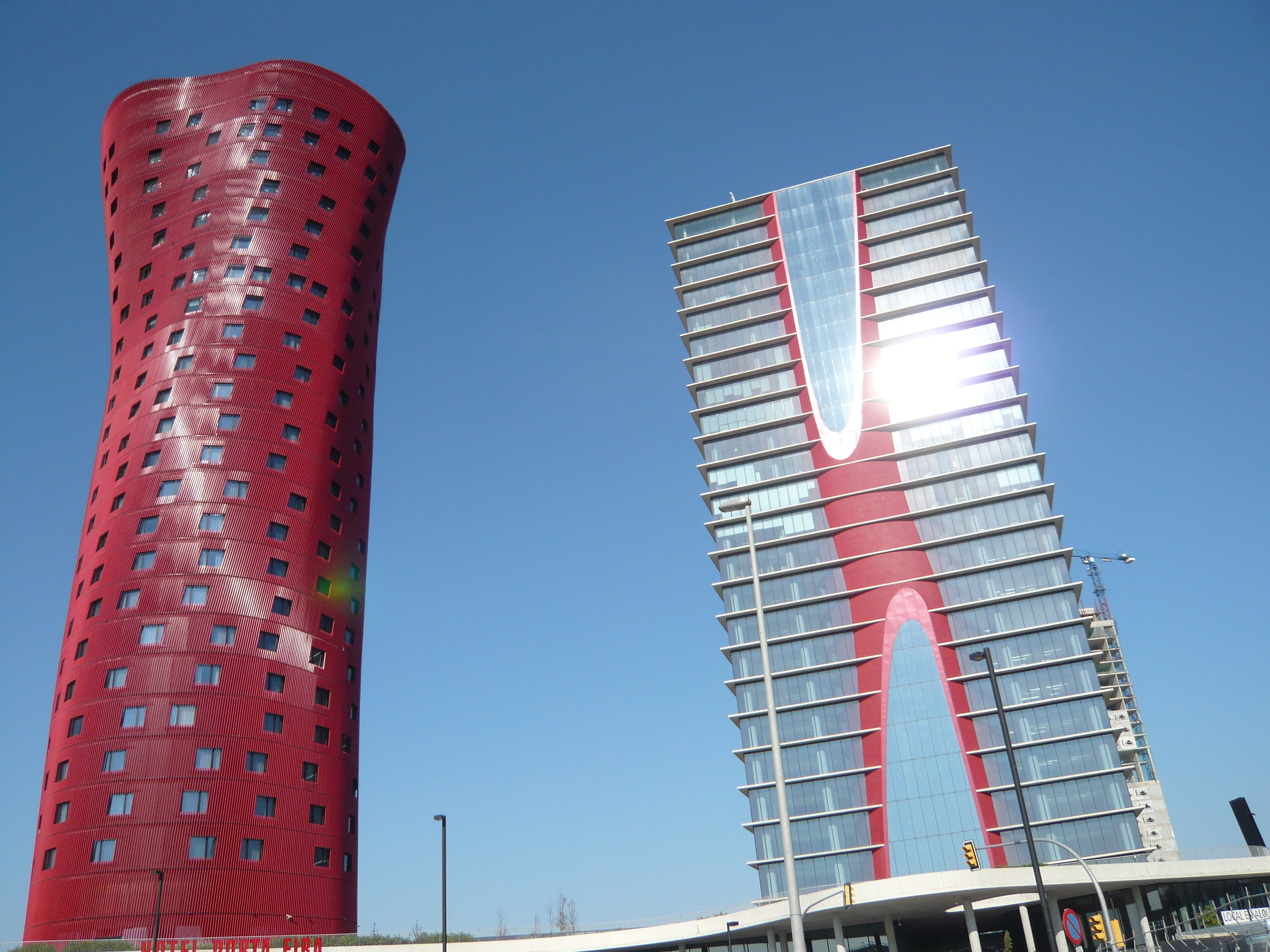 Toyo Ito Towers, L'Hospitalet de Llobregat, Plaza Europa. They are located at the entrance of the "Gran Via" center of Fira de Barcelona